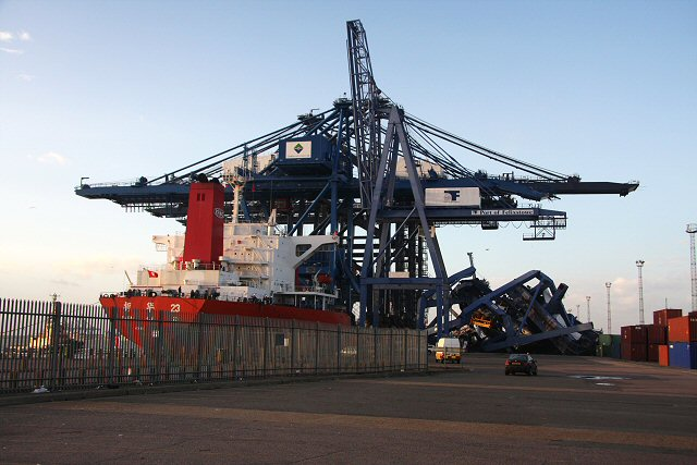 Collapsed cranes at the Port of Felixstowe In high winds last night this Chinese vessel broke her moorings and crashed into the gantry cranes on Landguard Terminal. Two cranes lie in a heap and are clearly beyond repair. Ironically, the vessel's cargo was cranes, and these are now stuck under the remaining gantries.